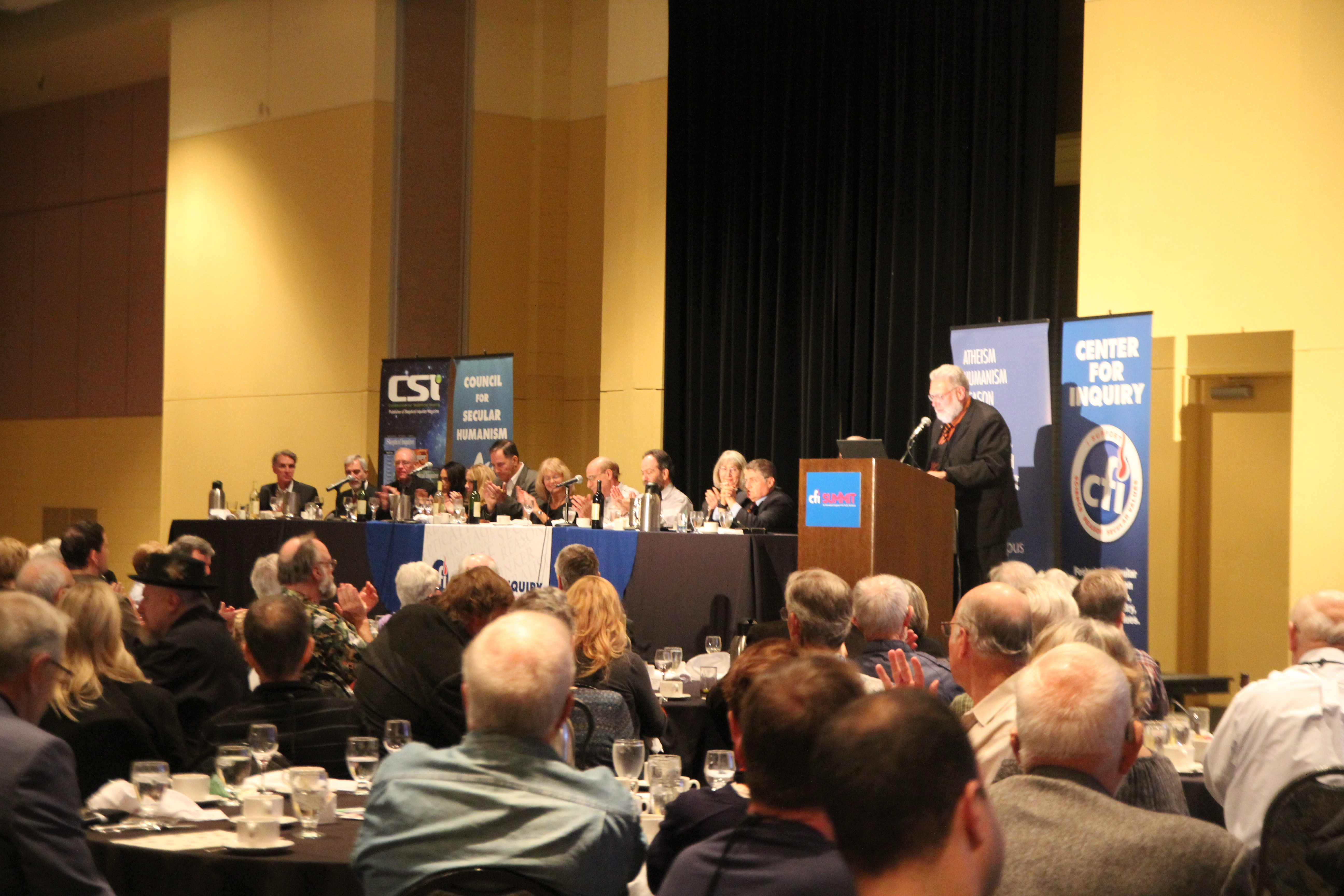 CSI Executive Council - Tacoma, WA 2013